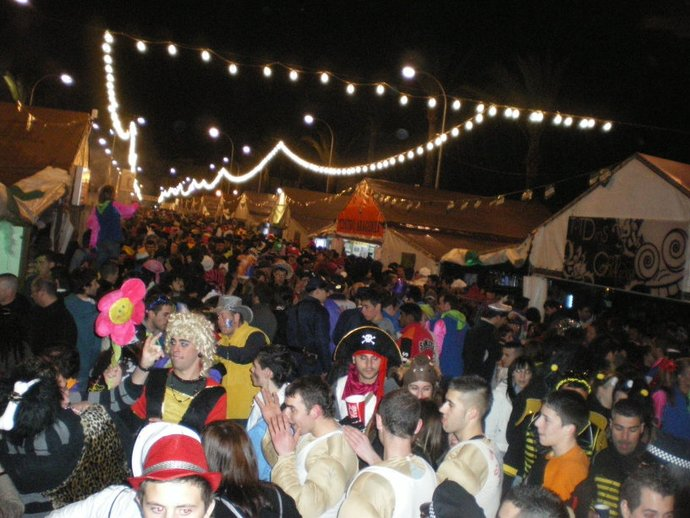 Campus carnival in vinaros